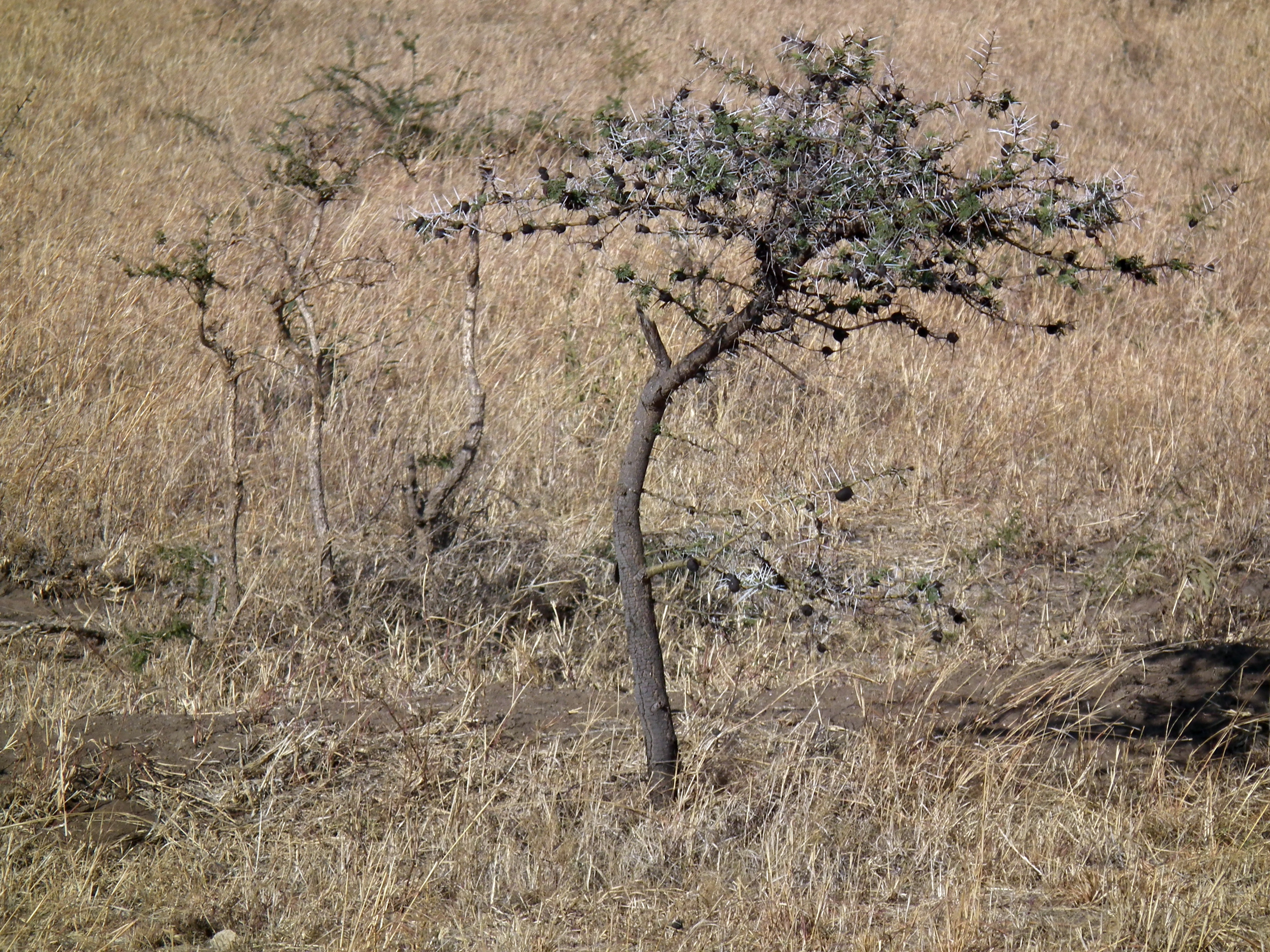 Flora of Tanzania. The Whistling Thorn (Acacia drepanolobium) A mouthful of that could change your perspective. This species of acacia grows two kinds of thorns. The main defense is provided by pairs 5cm long arranged nearly at a right angle. Smaller stipular spines grow between the pairs of big thorns. These emerge from hollow galls, bulbous swellings 2 to 3cm across. One of four different species of ant lives in each of these igloos, which they open up by cutting holes into them. A dying bush whistles as the wind blows over these entrances. Most acacias make toxins that it rushes to leaves that are under attack by browsers. The whistling thorn doesn't. It is infested with stinging ants that swarm out and prepare to bite anything they can when the branch is disturbed. Most browsers seem to avoid infested bushes, perhaps because the ants stink of formic acid.